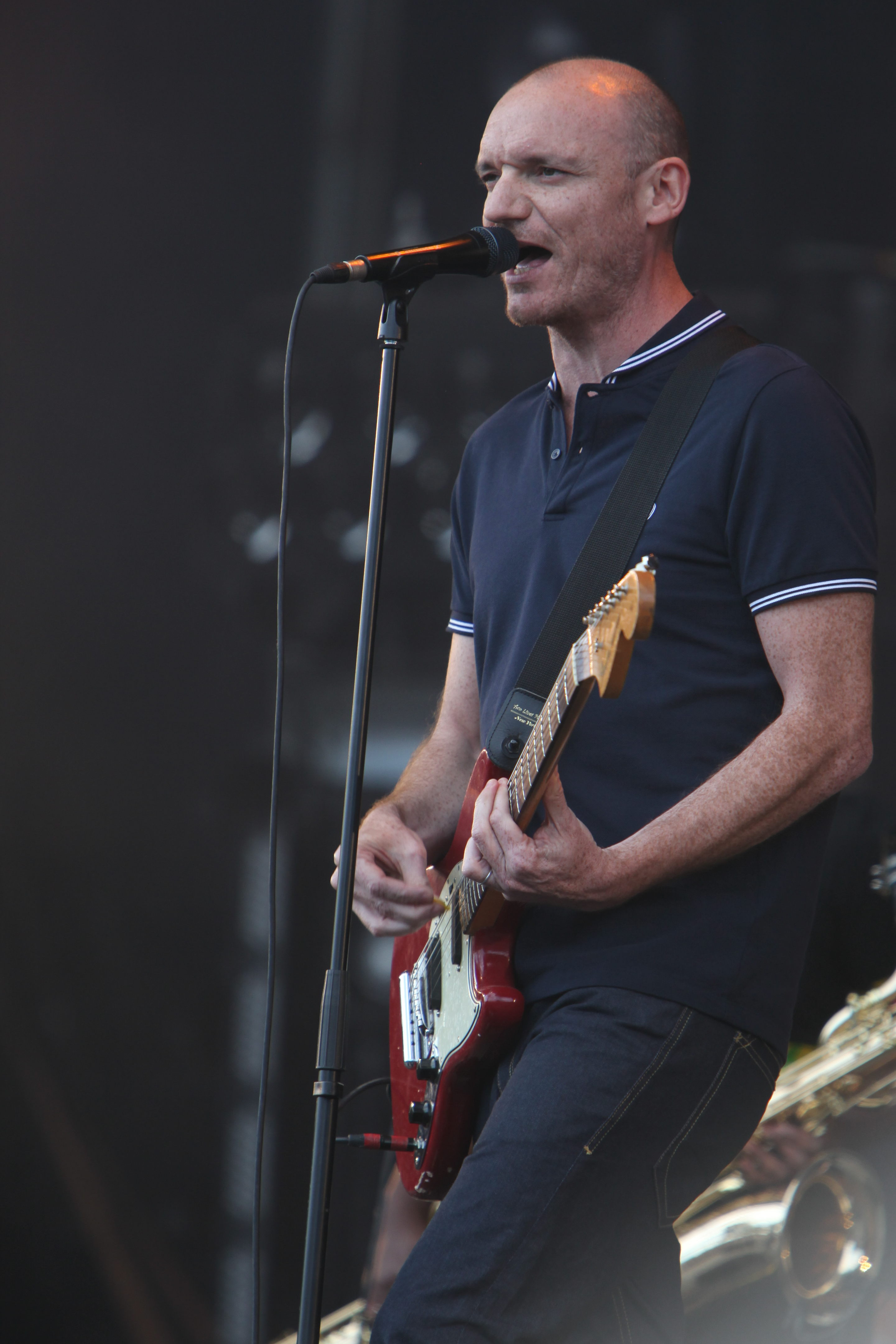 Gaëtan Roussel at the Eurockéennes de Belfort 2011 The making of this document was supported by Wikimedia CH. (Submit your project!) For all the files concerned, please see the category Supported by Wikimedia CH.